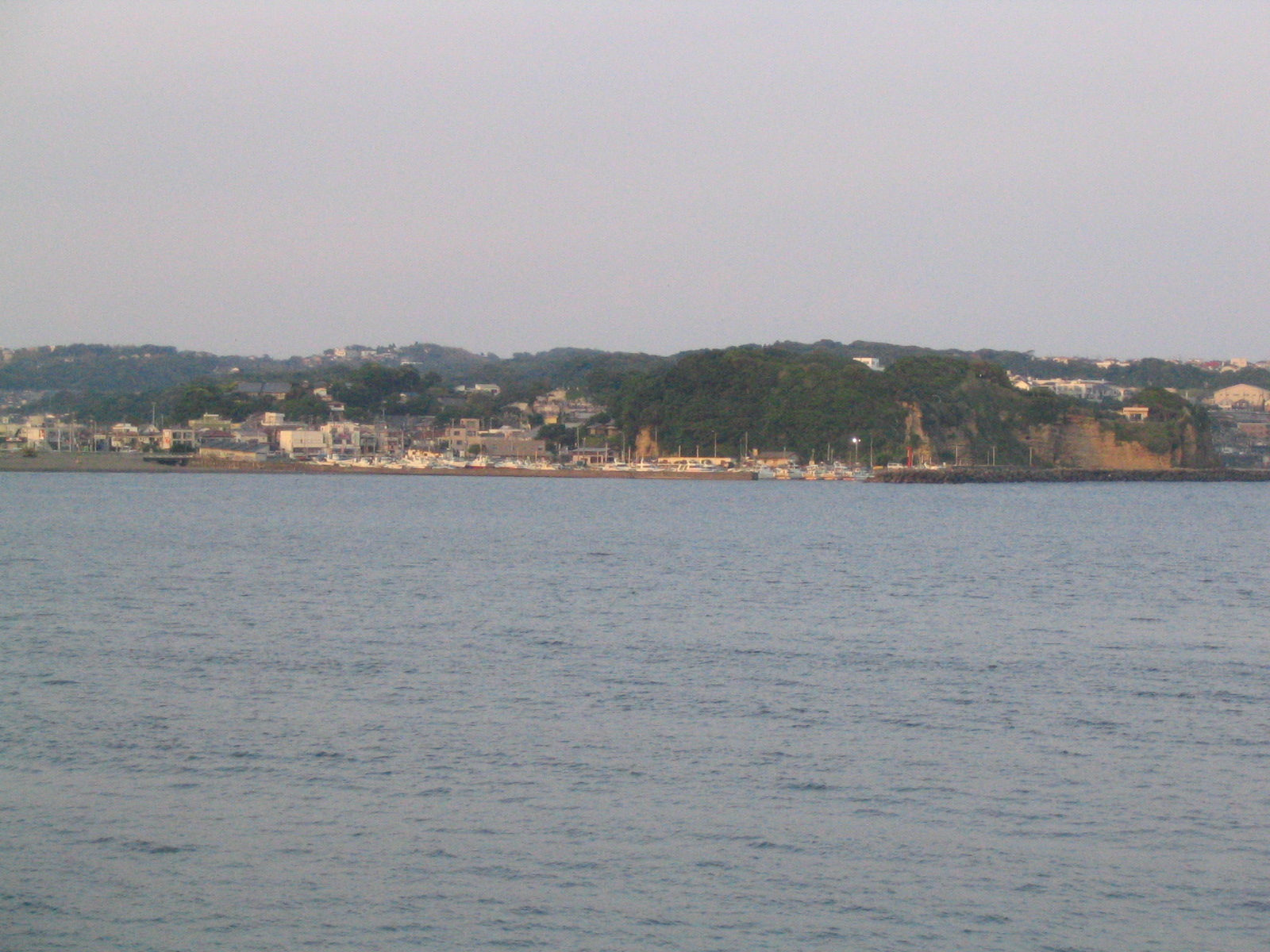 Koshigoe, Kamakura, Kanagawa, Japan, photo from Enoshima